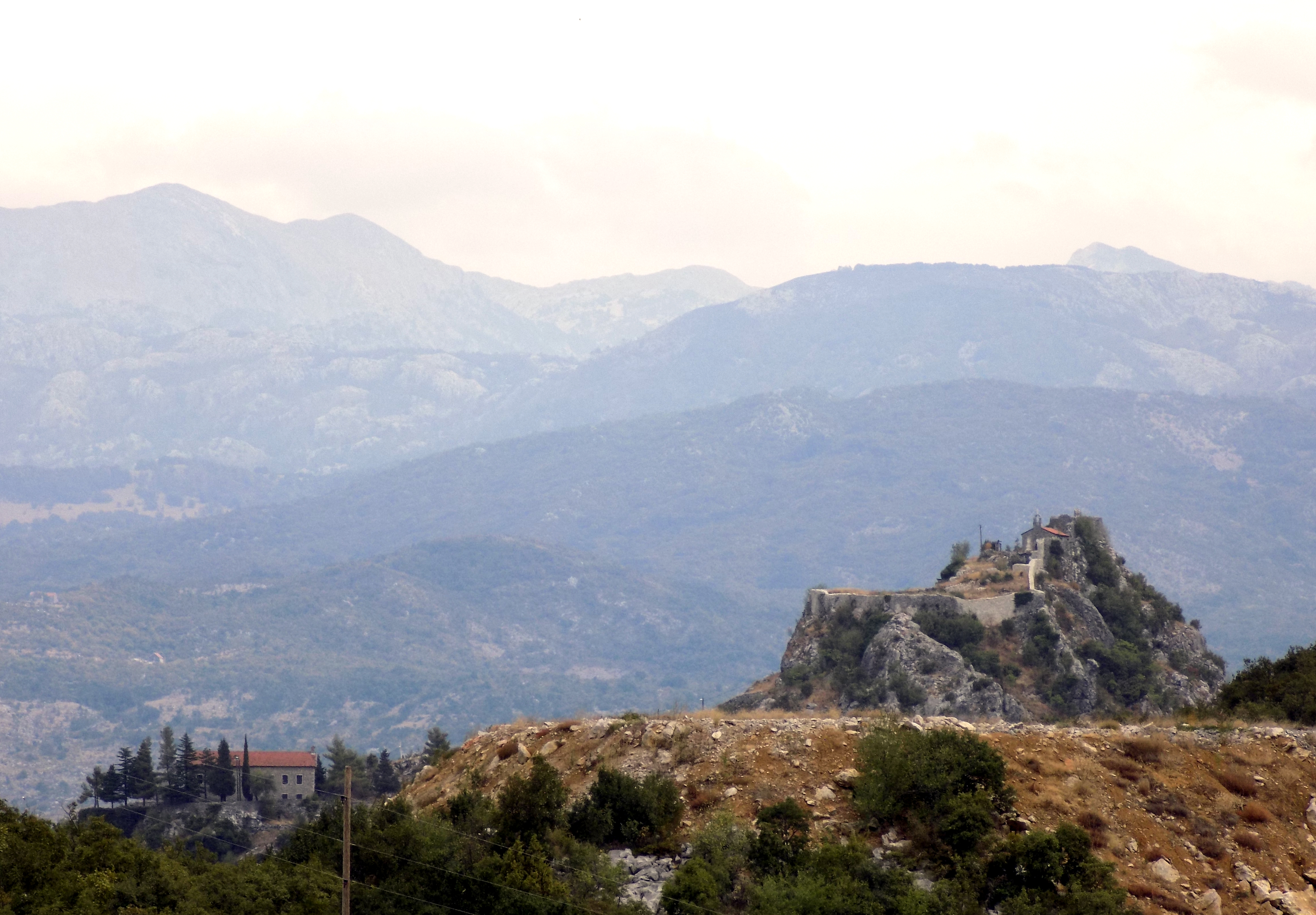 Remains of the ancient city of Meteon and the Museum of Marko Miljanov next to it